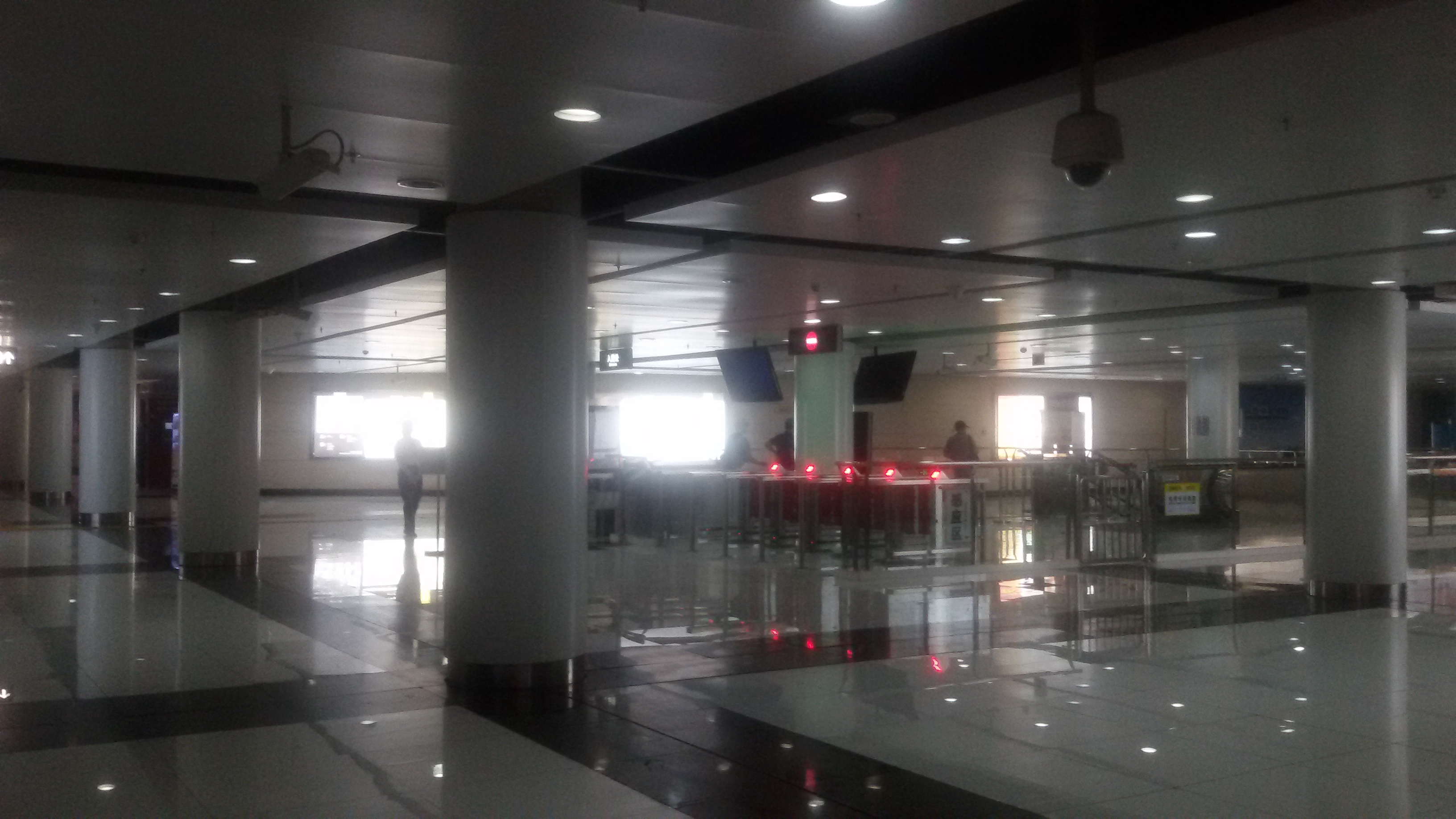 Station Concourse for Guangzhou Opera House Station in Guangzhou Metro 粵語: 廣州地鐵，大劇院站嘅站廳。